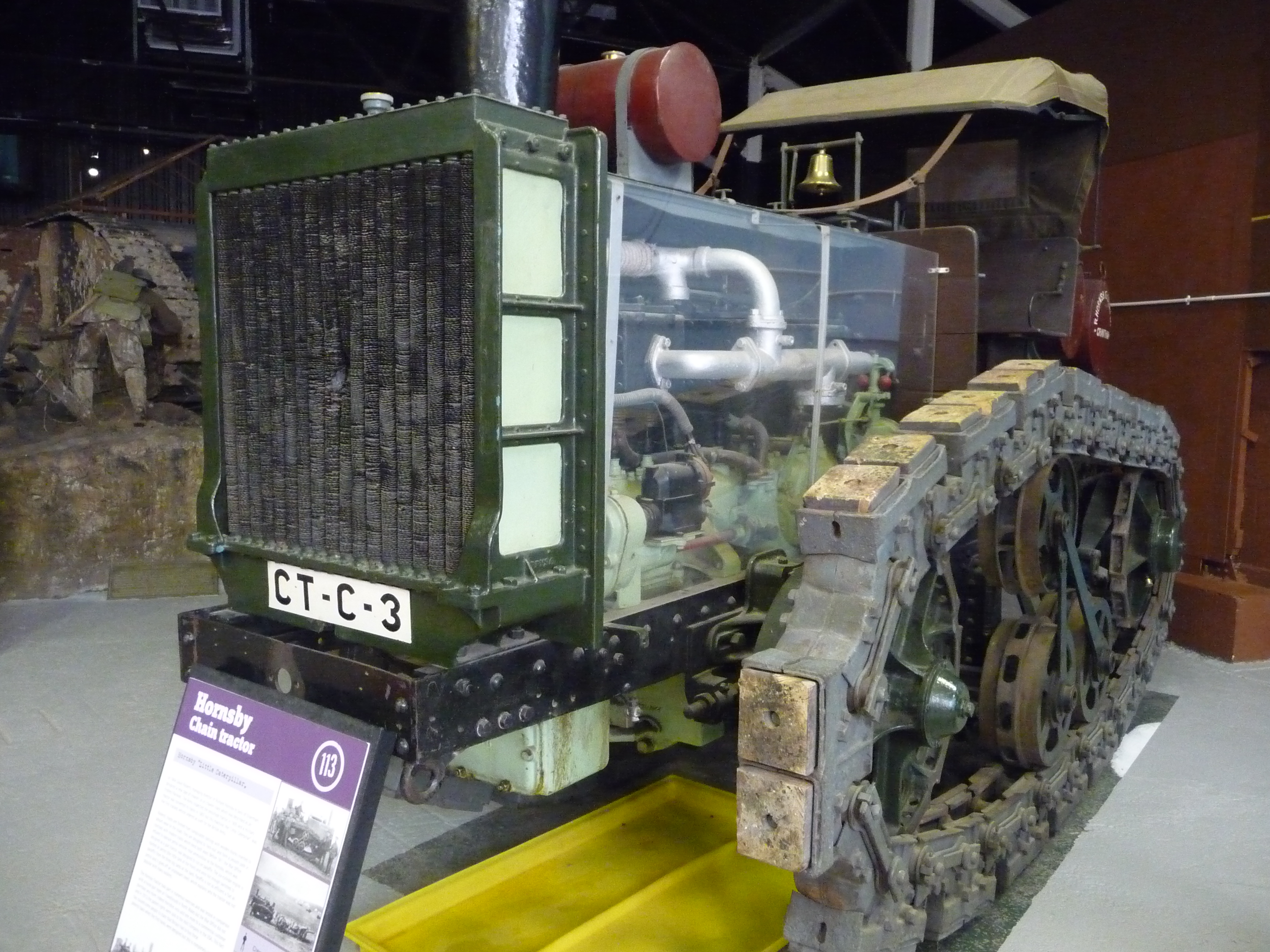 Hornsby Chain Track Tractor. in the Bovington Tank Museum, UK. See also File:Hornsby tractor Bovington Flickr 4774502618.jpg